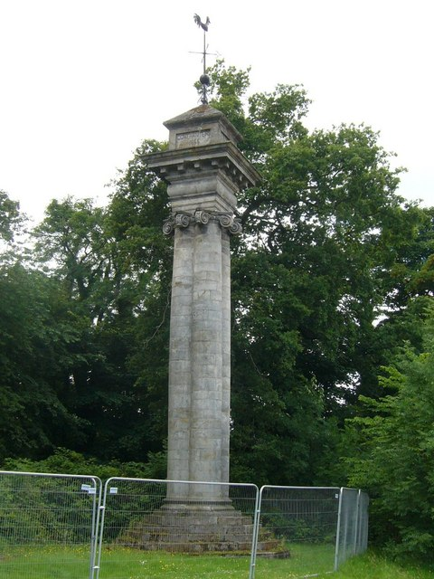 Covenanters Memorial, Dreghorn, Edinburgh